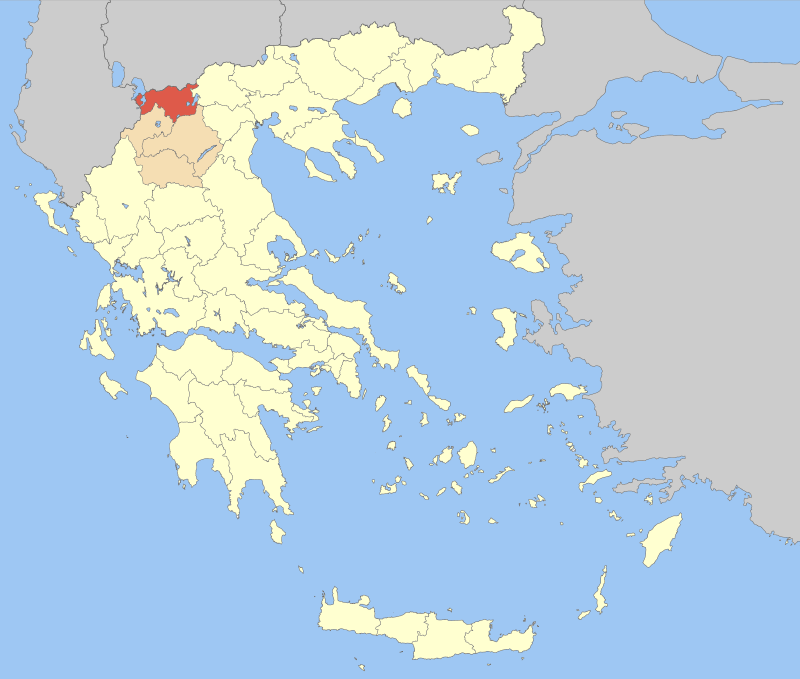 Locator map of Florina prefecture (Νομός Φλώρινας) in Greece